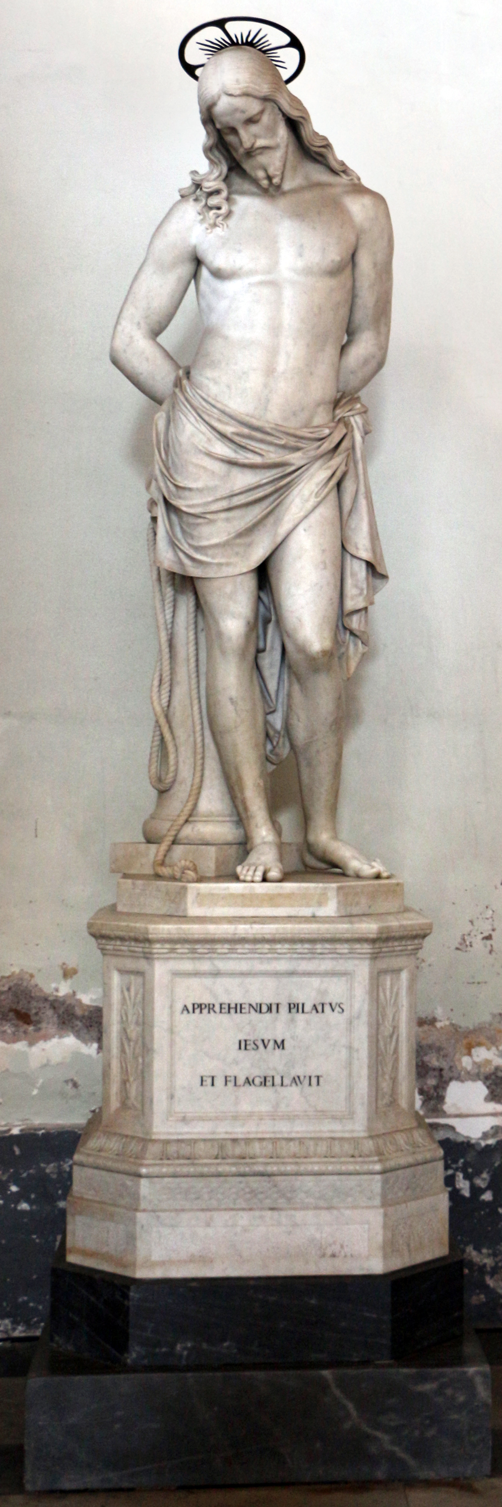 Scala Santa (Rome)